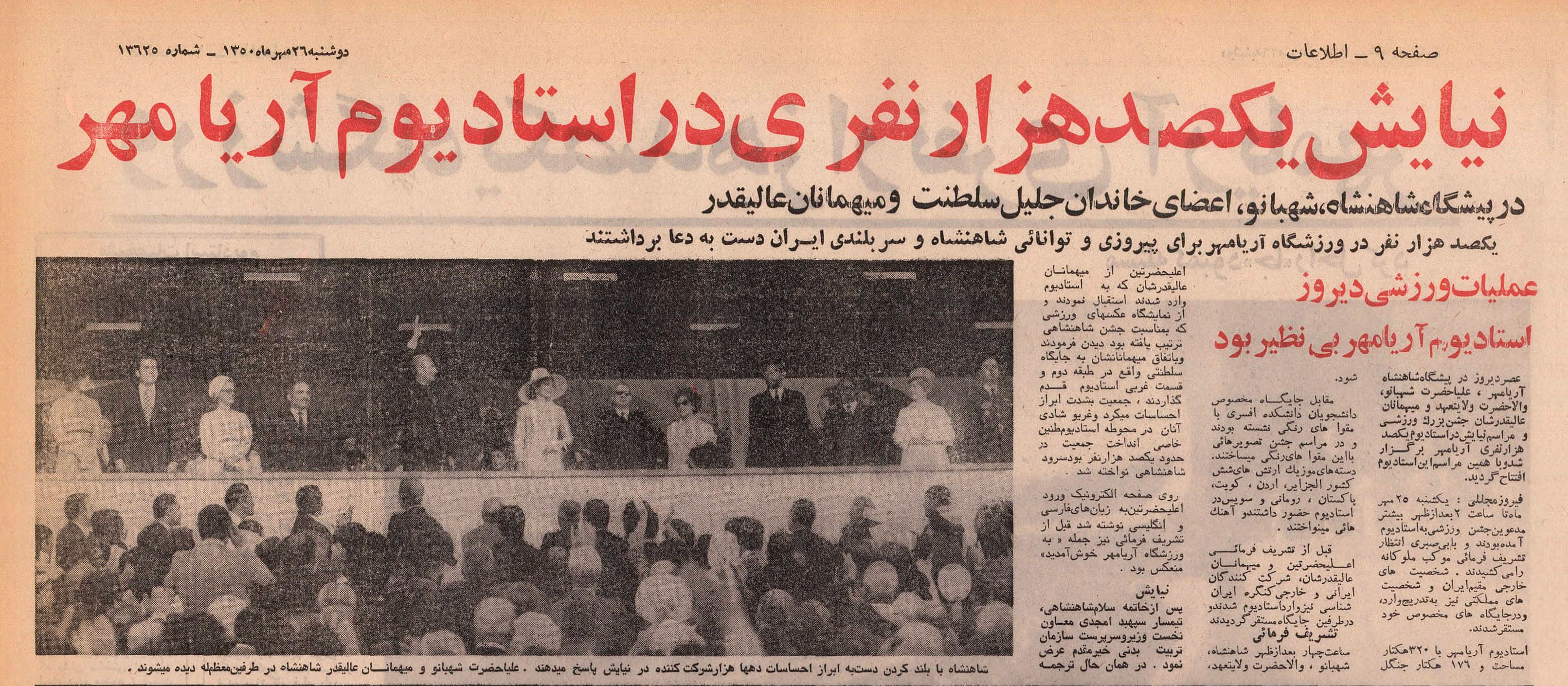 Inauguration Aryamehr Stadium (now Azadi Stadium) as part of w:2,500 year celebration of the Persian Empire